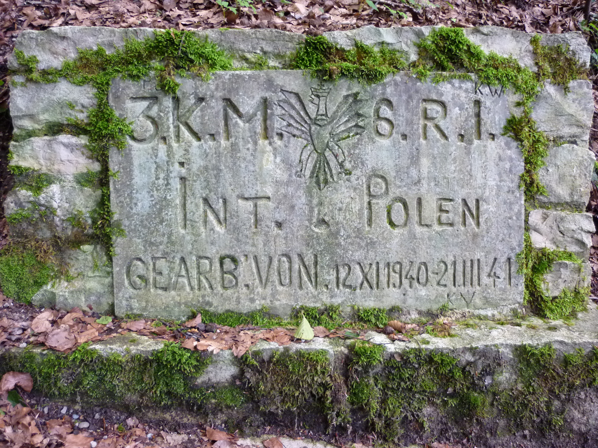 Military street build by Polish internees in WWII, Bergdietikon AG, Switzerland